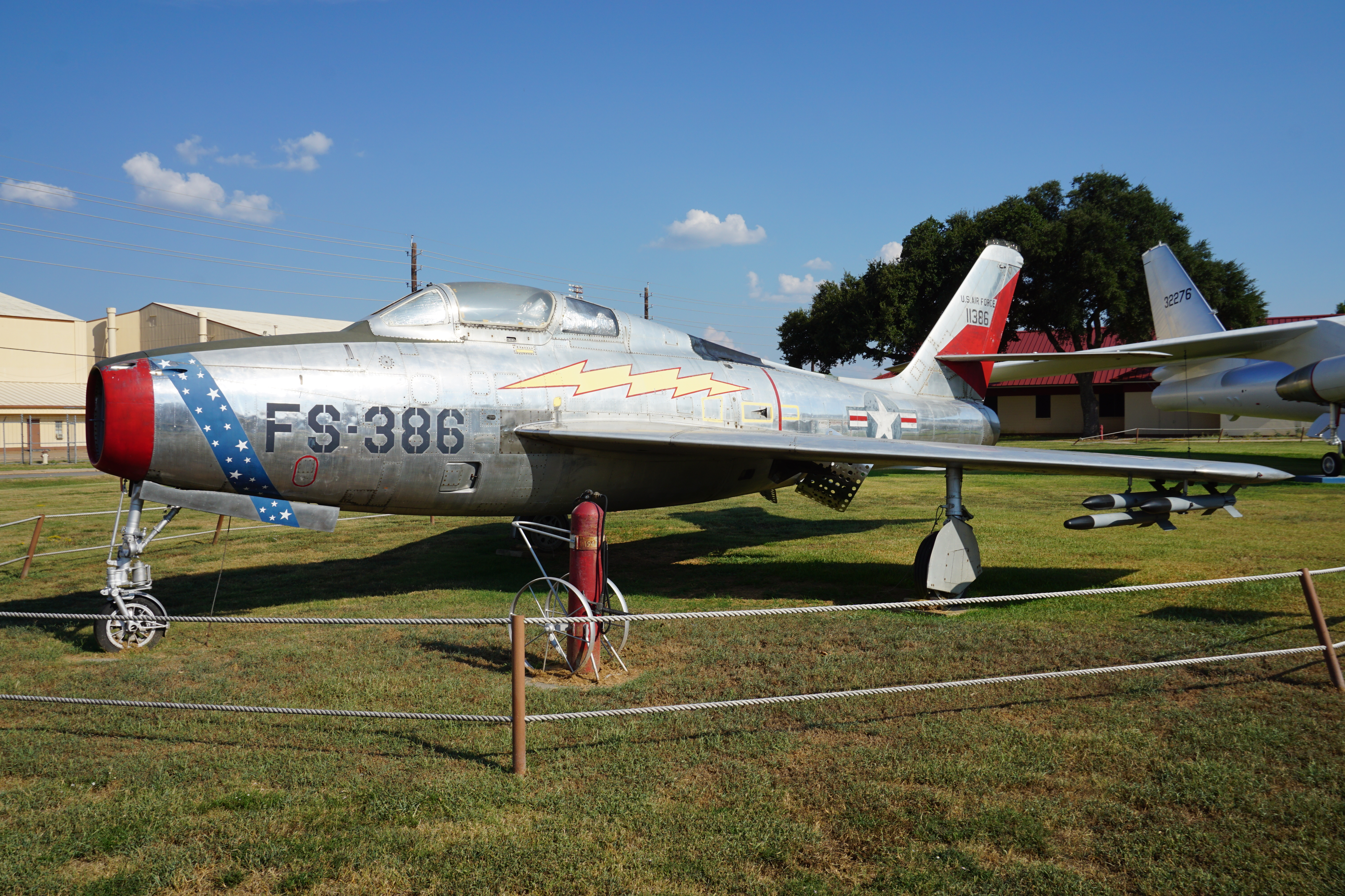 A Republic F-84F Thunderstreak on display at the Barksdale Global Power Museum at Barksdale Air Force Base near Bossier City, Louisiana (United States).